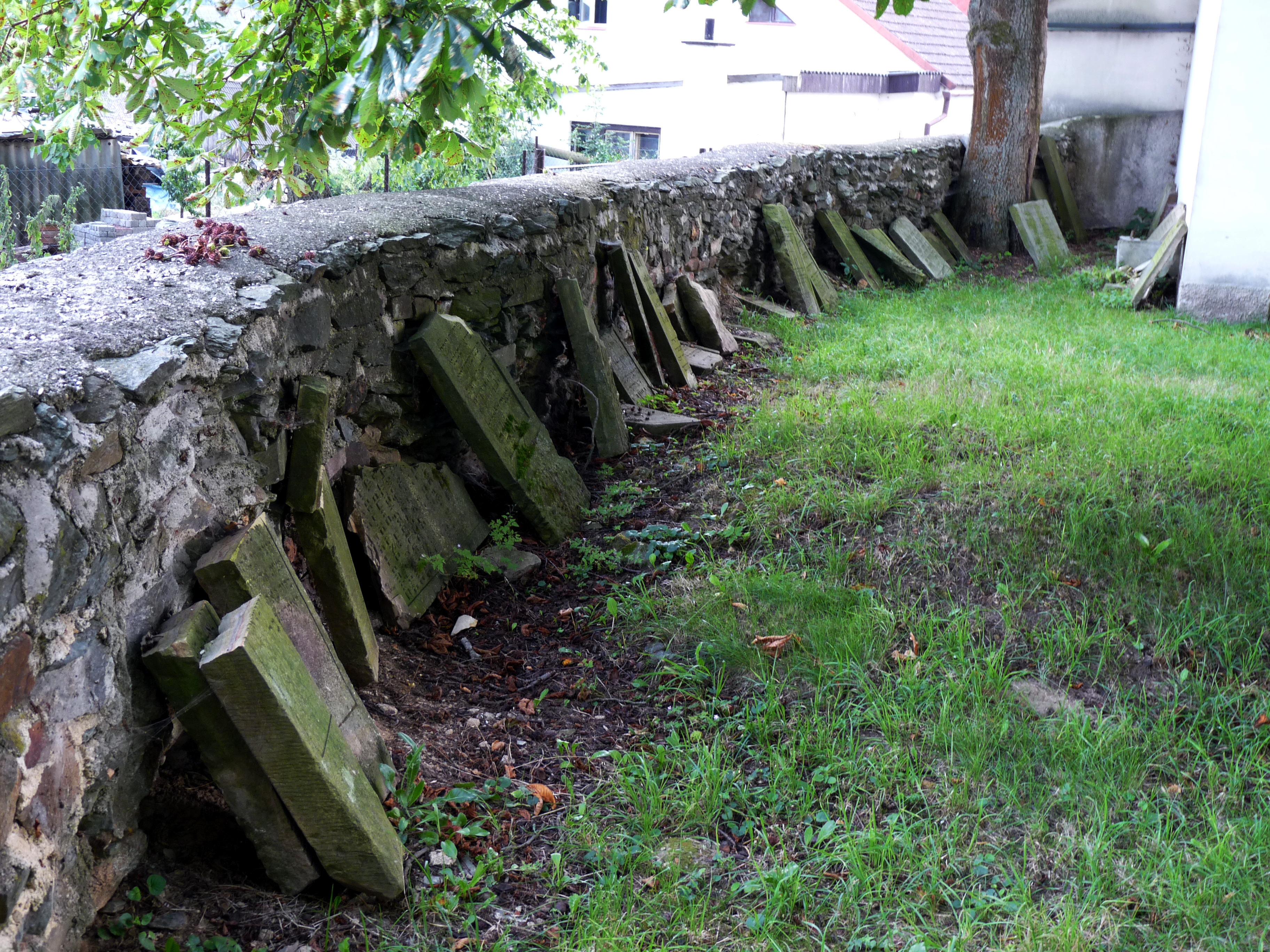 Gravestones in the Jewish cemetery in the town of Úsov, Šumperk District, Czech Republic.